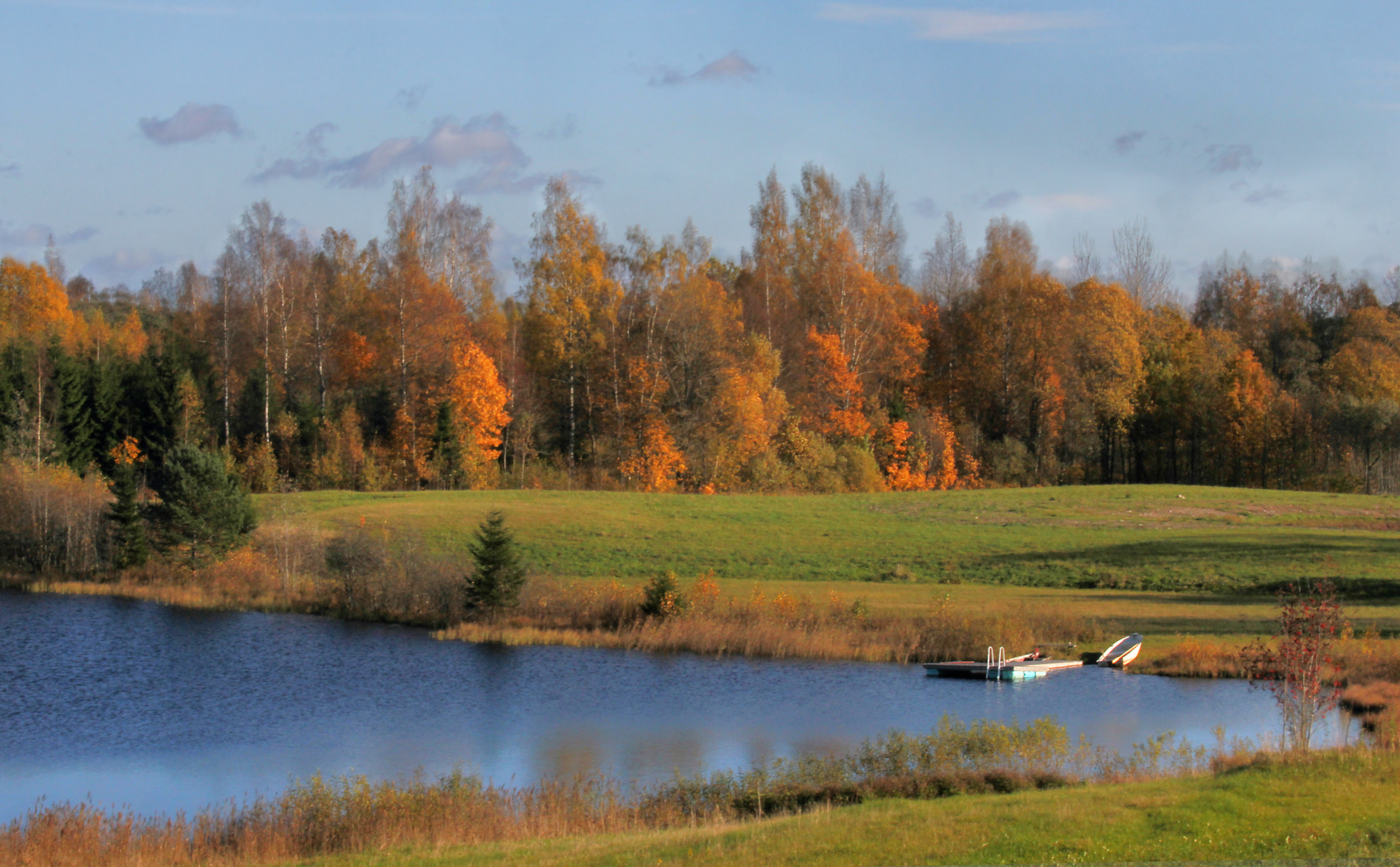 Lake Saarise in southern Estonia